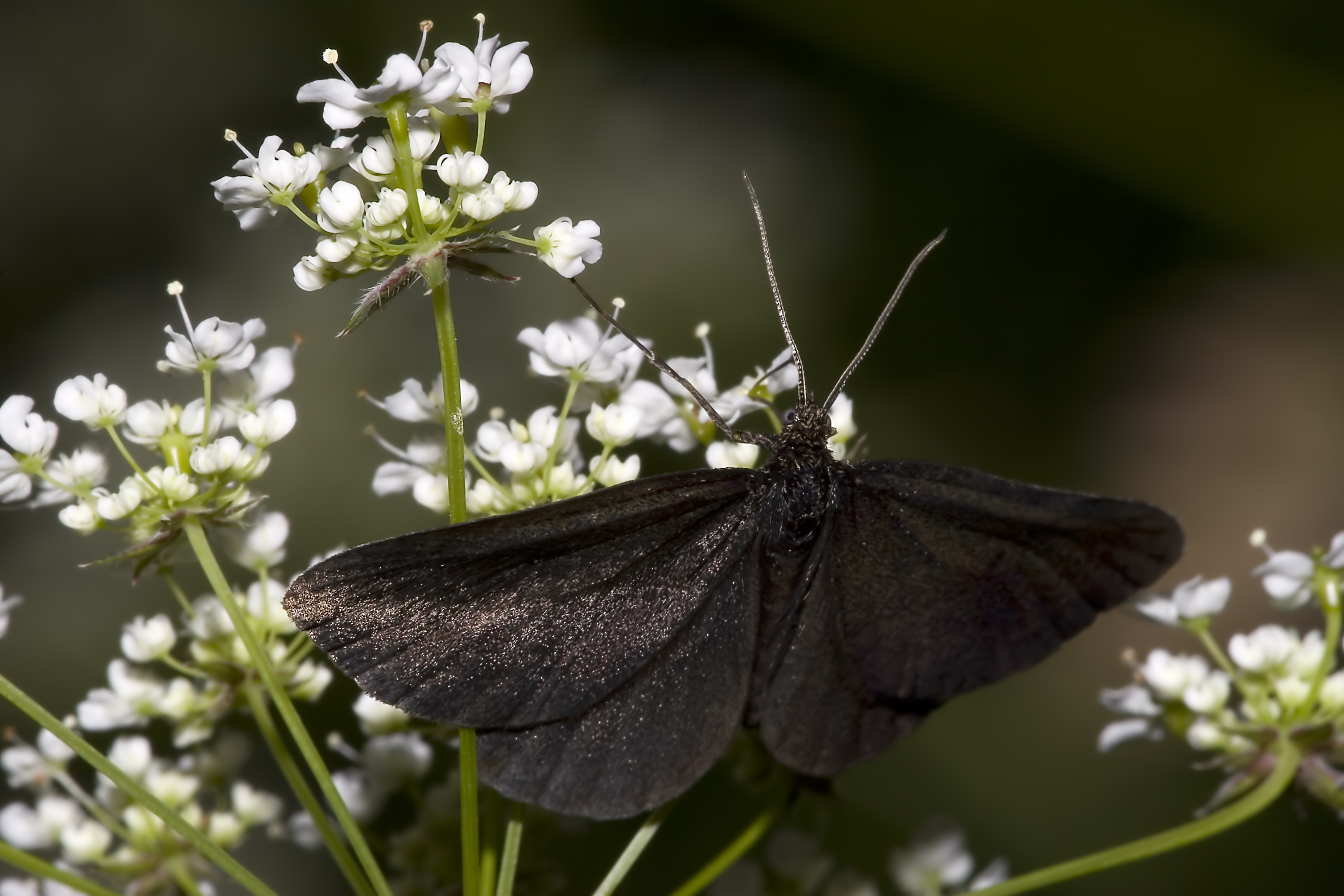 Chimney Sweeper